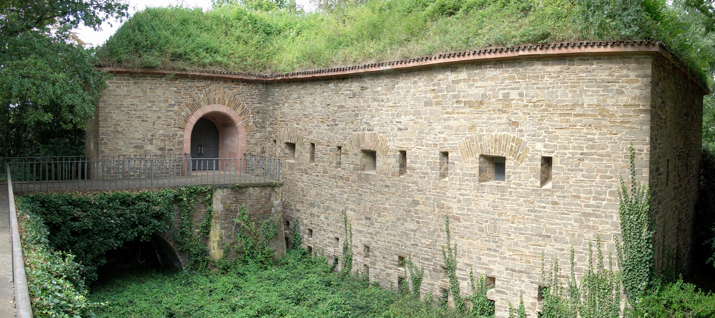 Batterie Hübeling in Koblenz - Memorial for the soldiers and non-combattants who died in air-attacks on Koblenz